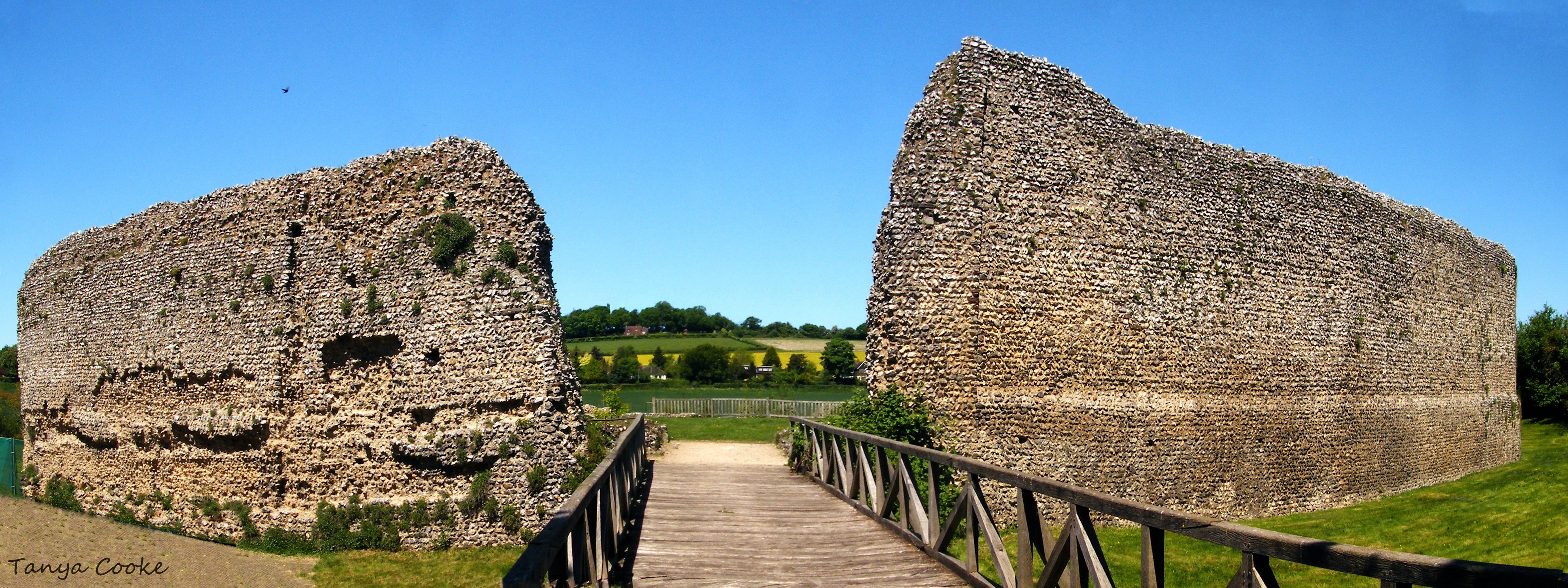 Eynsford Castle Wikidata has entry Q1385848 with data related to this monument.